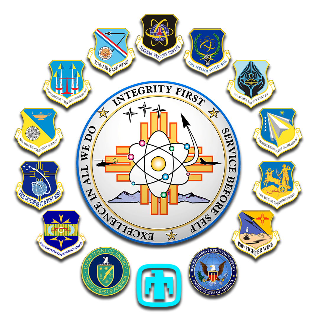 The Team Kirtland Logo.